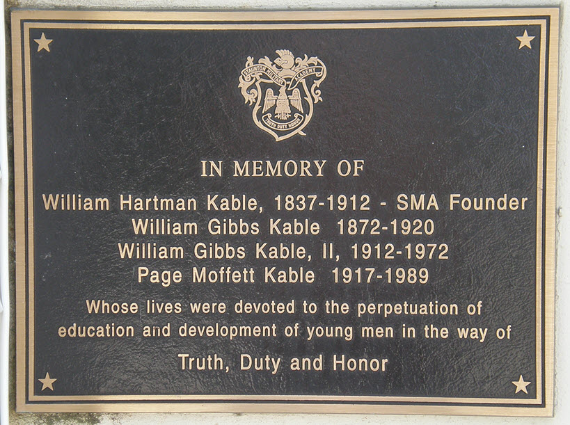 Commemorative plaque, Kable Hall, honoring founders of Staunton Military Academy (founded 1884, disestablished 1976), Staunton, Virginia. The building is now a residence hall at Mary Baldwin University.